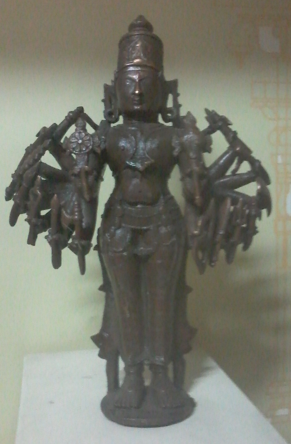 19th CAD. Vishnu as viwaroopa sandarsana murthy